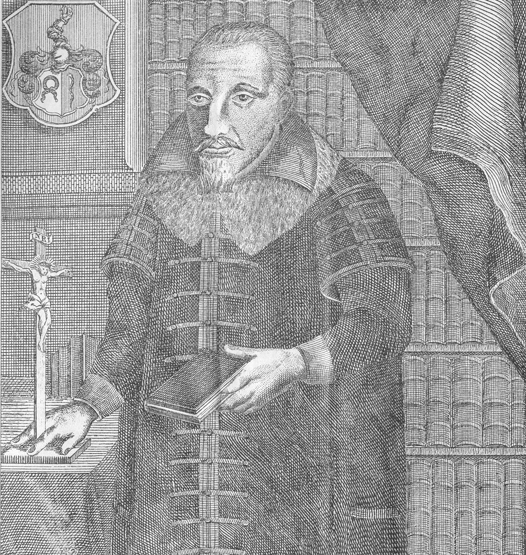 Rev. Samuel Dambrowski (1577-1625) - pastor of the Evangelical Augsburg Church in Poland, religious writer